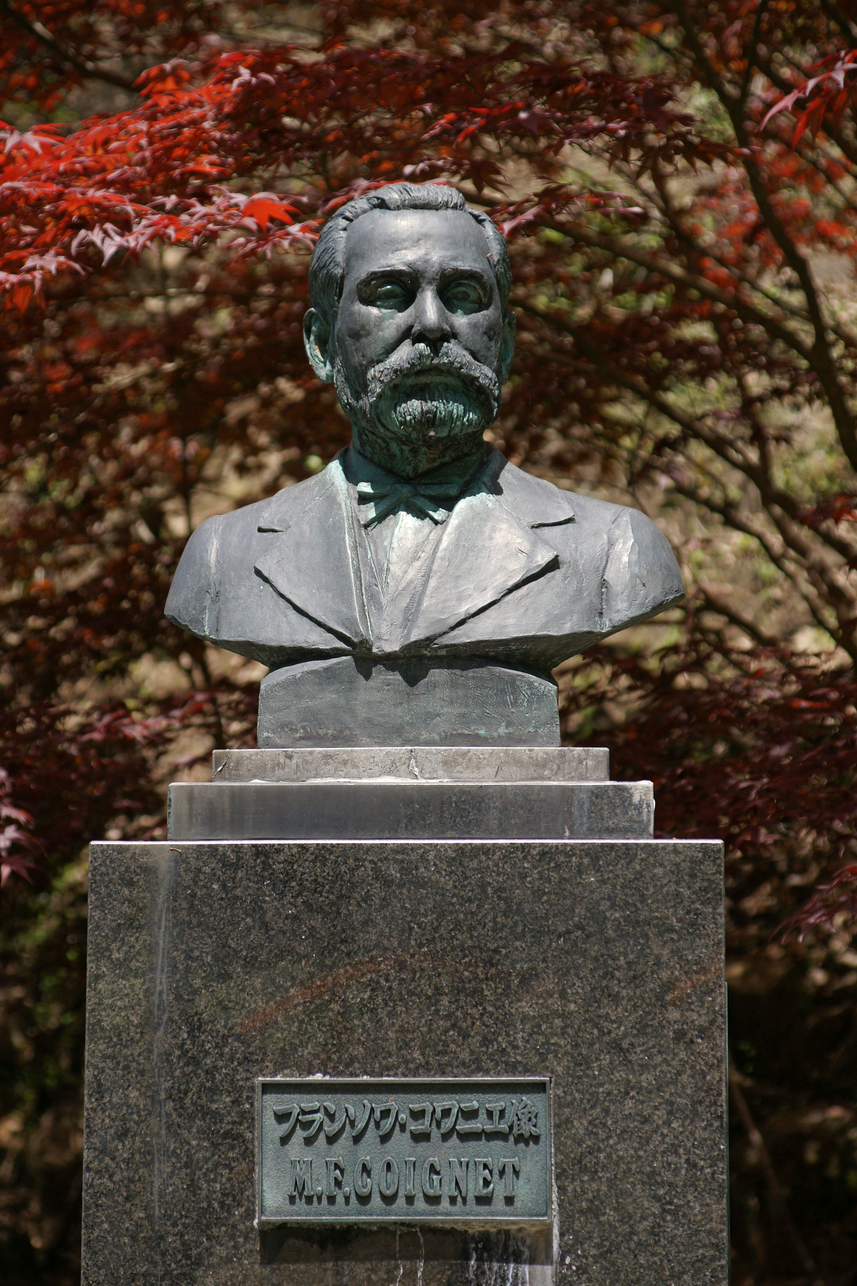 The bronze statues of Jean Francisque Coignet on Ikuno Ginzan Silver Mine in Ikuno, Asago, Hyogo prefecture, Japan.